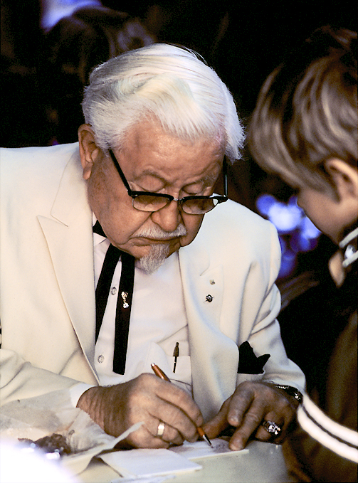 Kentucky Colonel Harland Sanders in the 1970s, in character